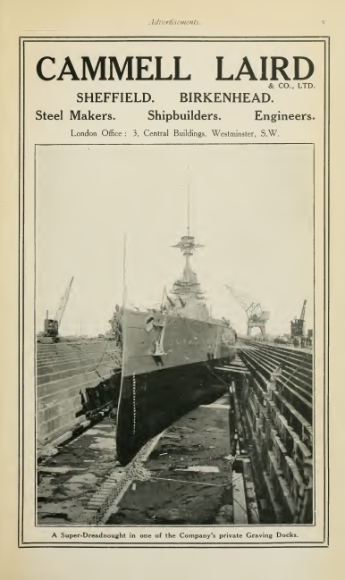 Advertisement for Cammell Laird shipbuilders in Brassey's Naval Annual 1915.